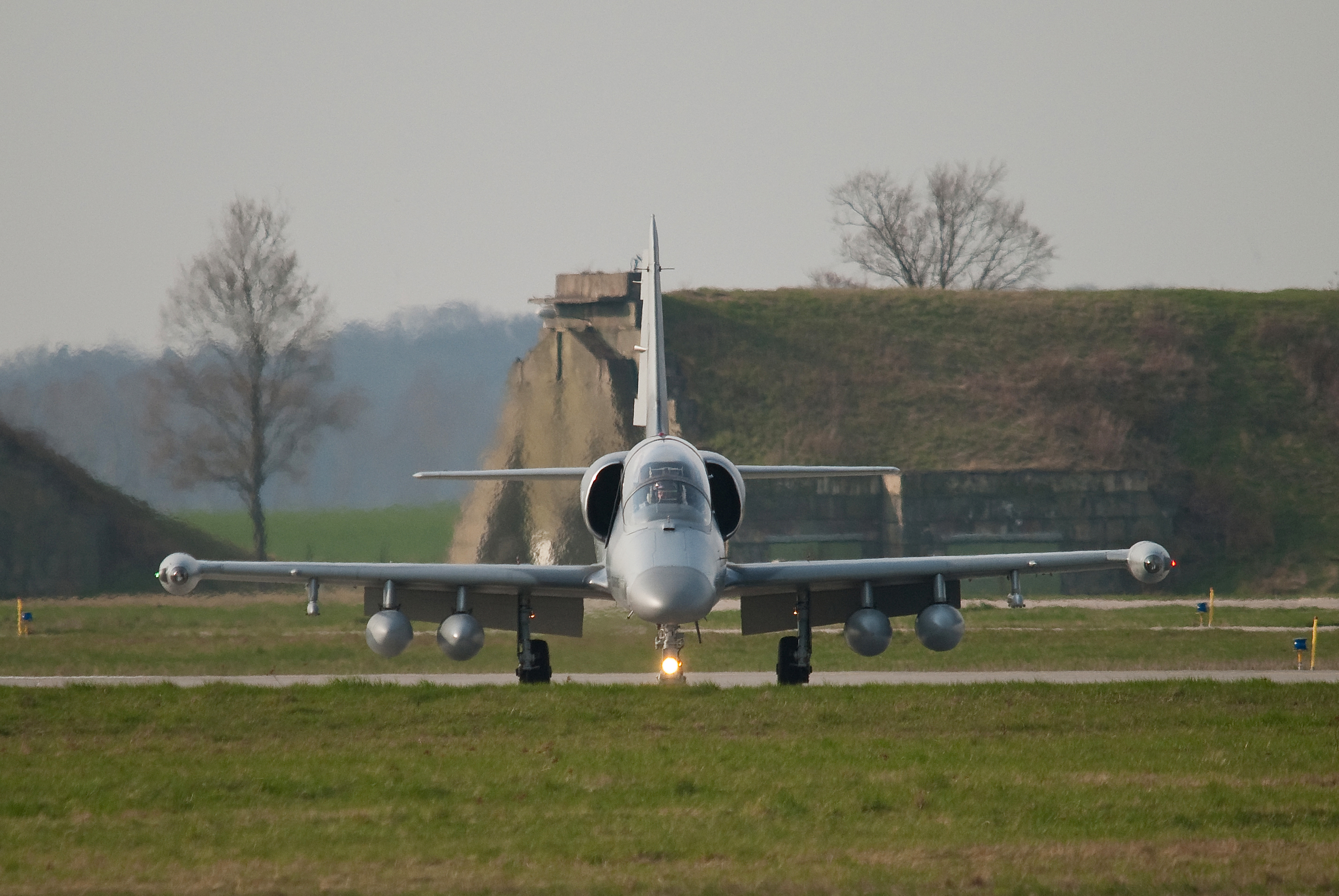 Czech Air Force Aero L-159